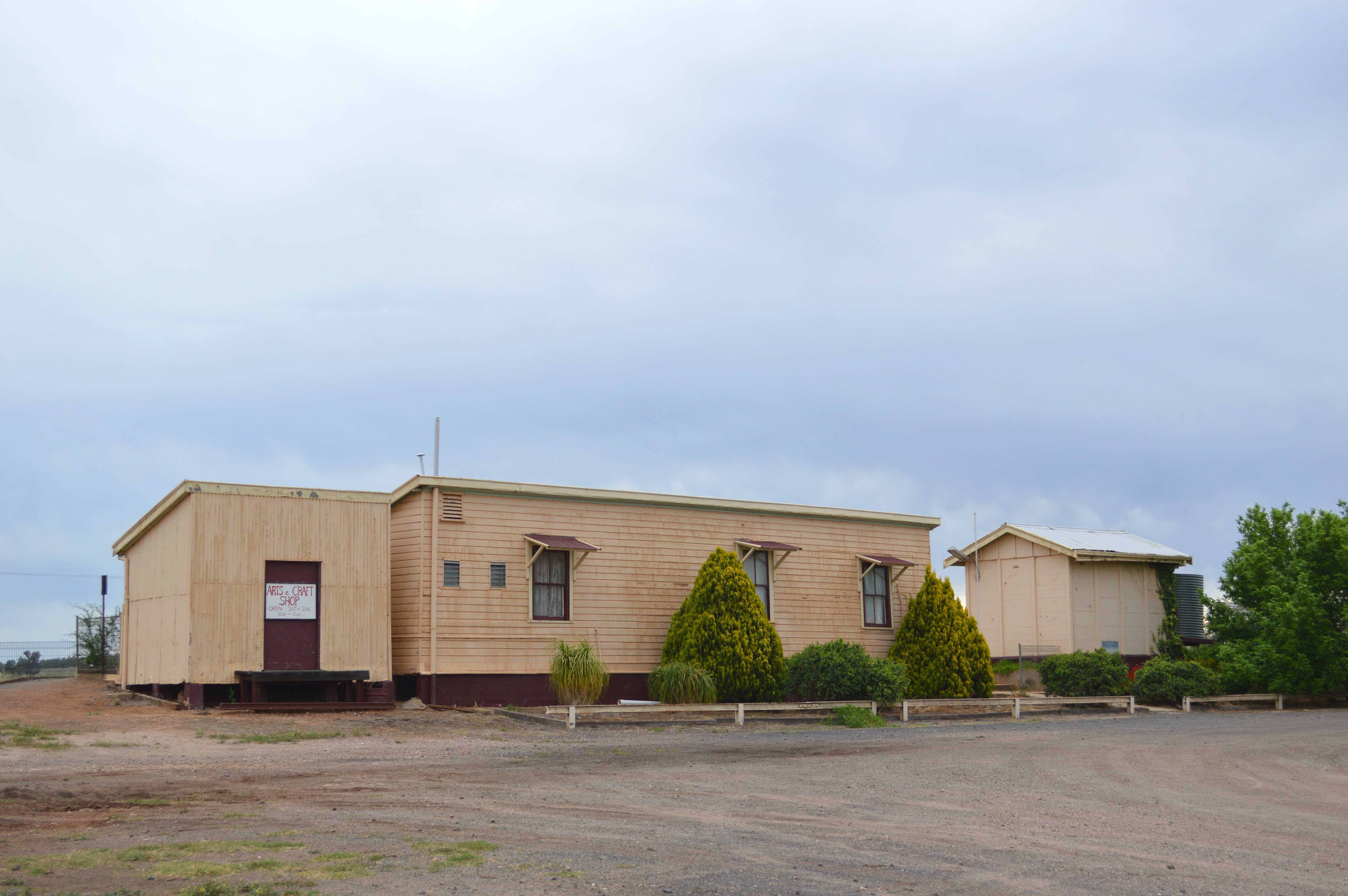 Closed railway station at Bogan Gate, New South Wales